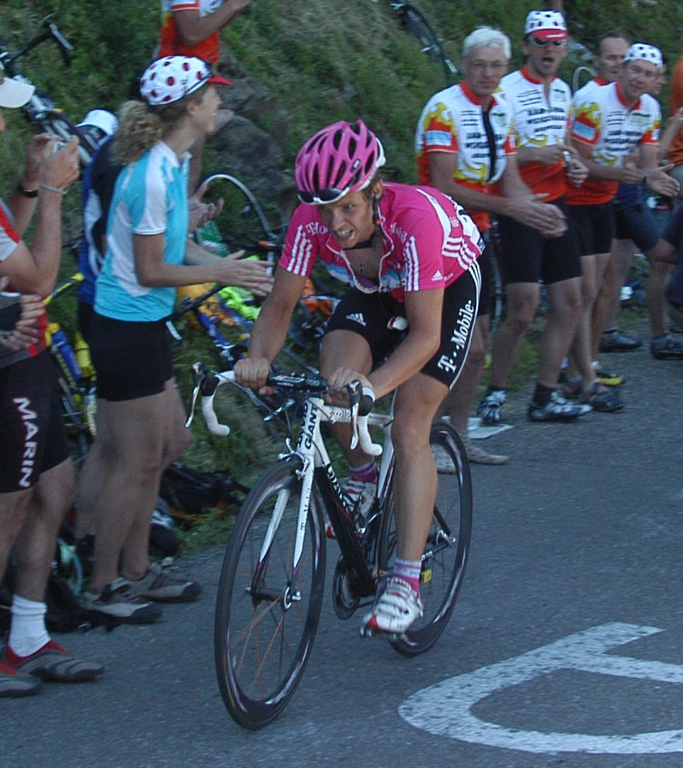 Linus Gerdemann a head at stage 7 of the Tour de France 2007 on the Col de la Colombière.